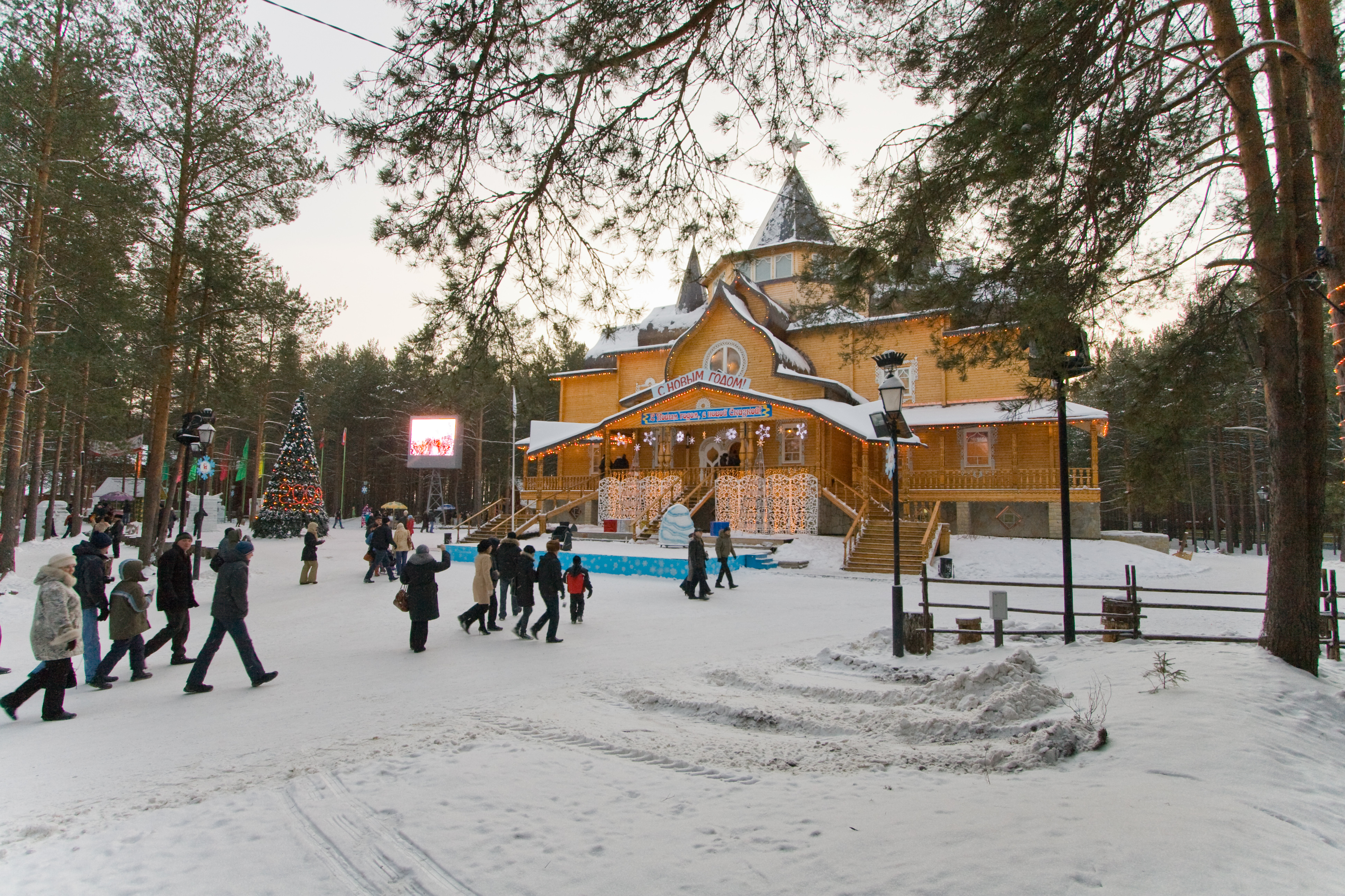 Ded Moroz house in Veliky Ustyug